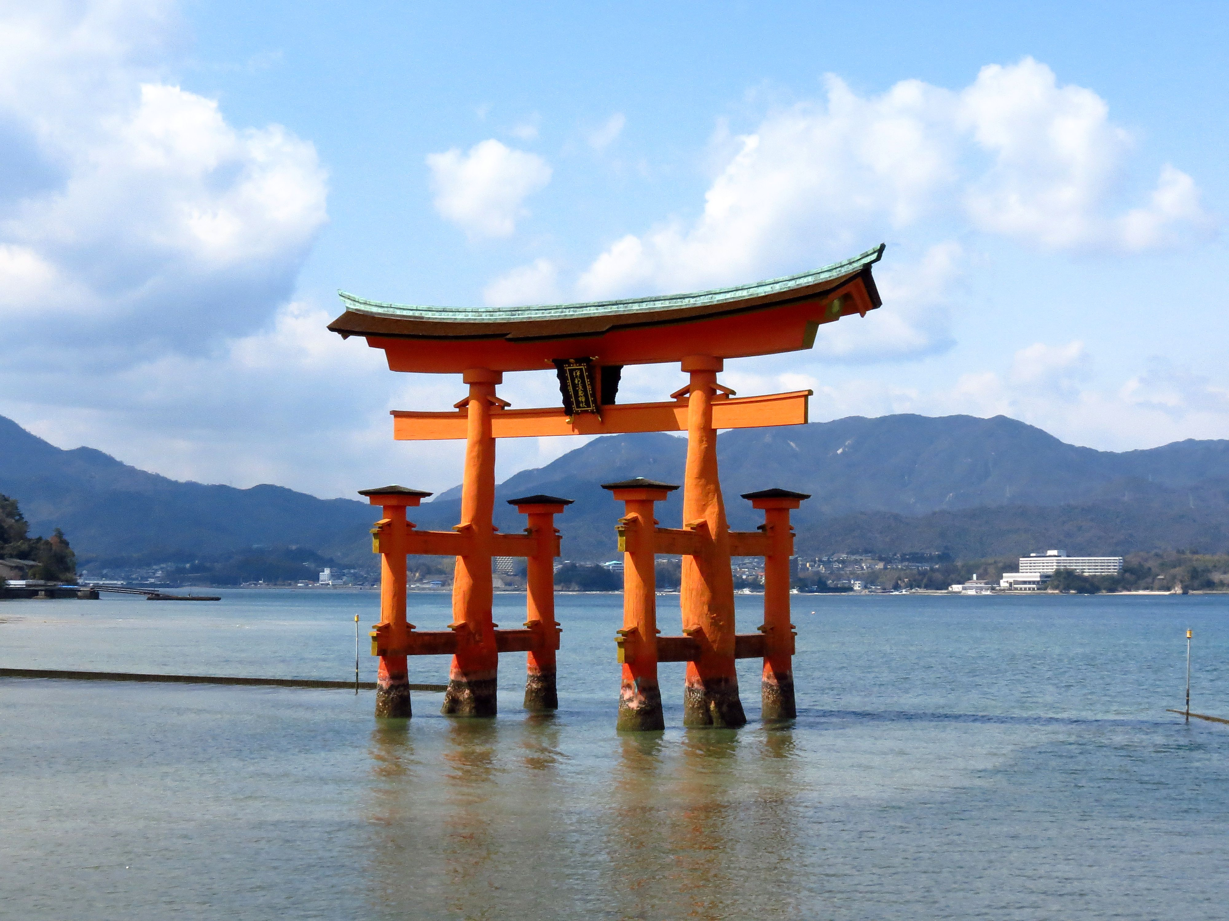 Itsukushima Shrine Torii Gate